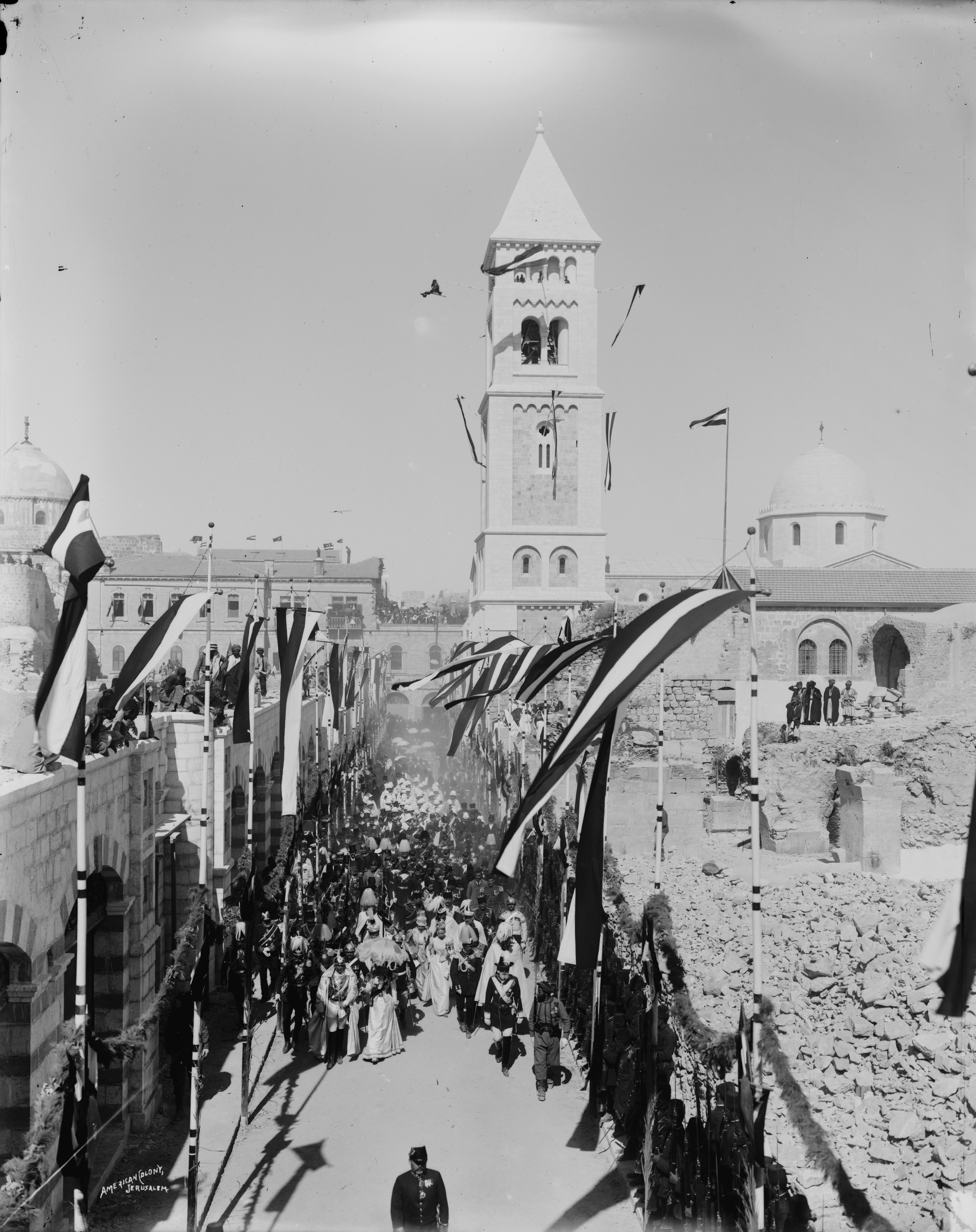 State visit to Jerusalem of Wilhelm II of Germany in 1898. Emperor and Empress.